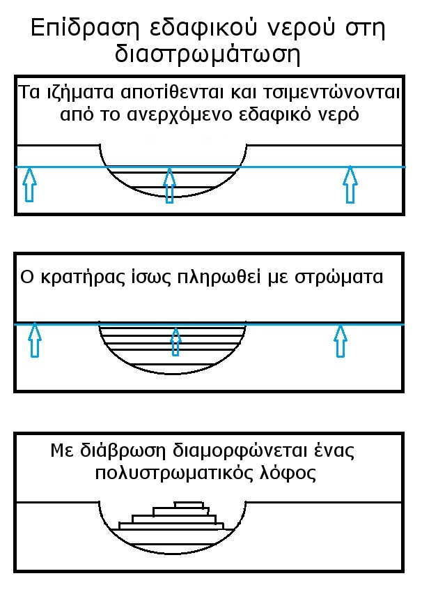 Translation of File:Groundwaterseries8final.jpg to Greek